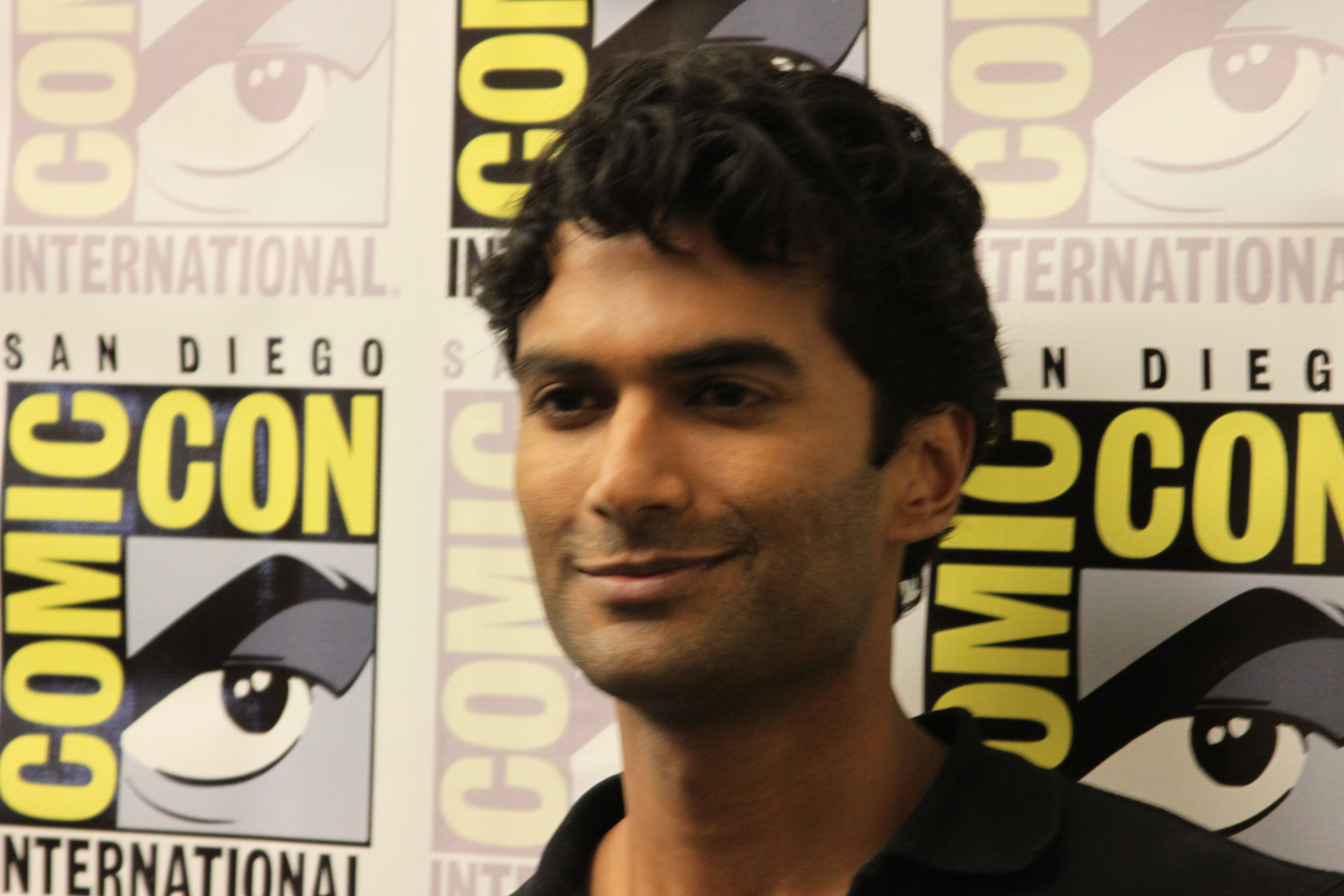 The actor Sendhil Ramamurthy at San Diego Comic-Con International 2011